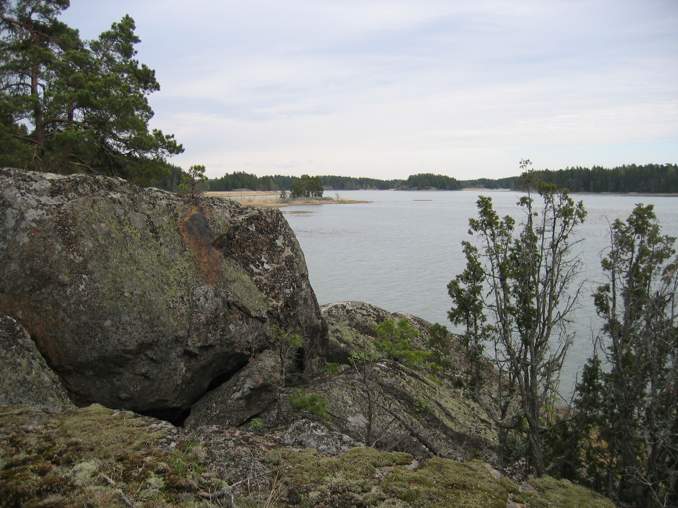 View south from Aitsaari island in Lemu